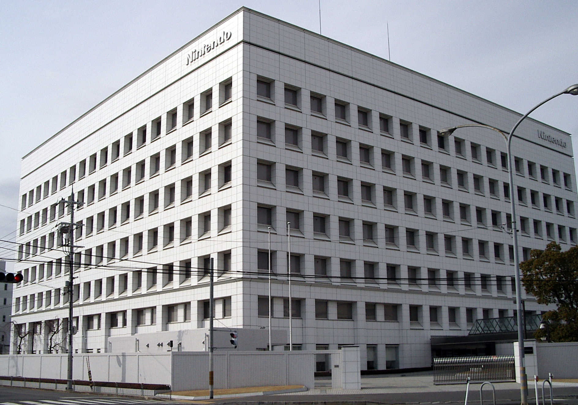 Building design by Yoshimura Architects, 2000. 京都市南区 2006年2月18日に投稿者が撮影 Head Quarters of Nintendo, Minami-ku, Kyoto, Japan. The picture was taken by the poster in February, 2006.